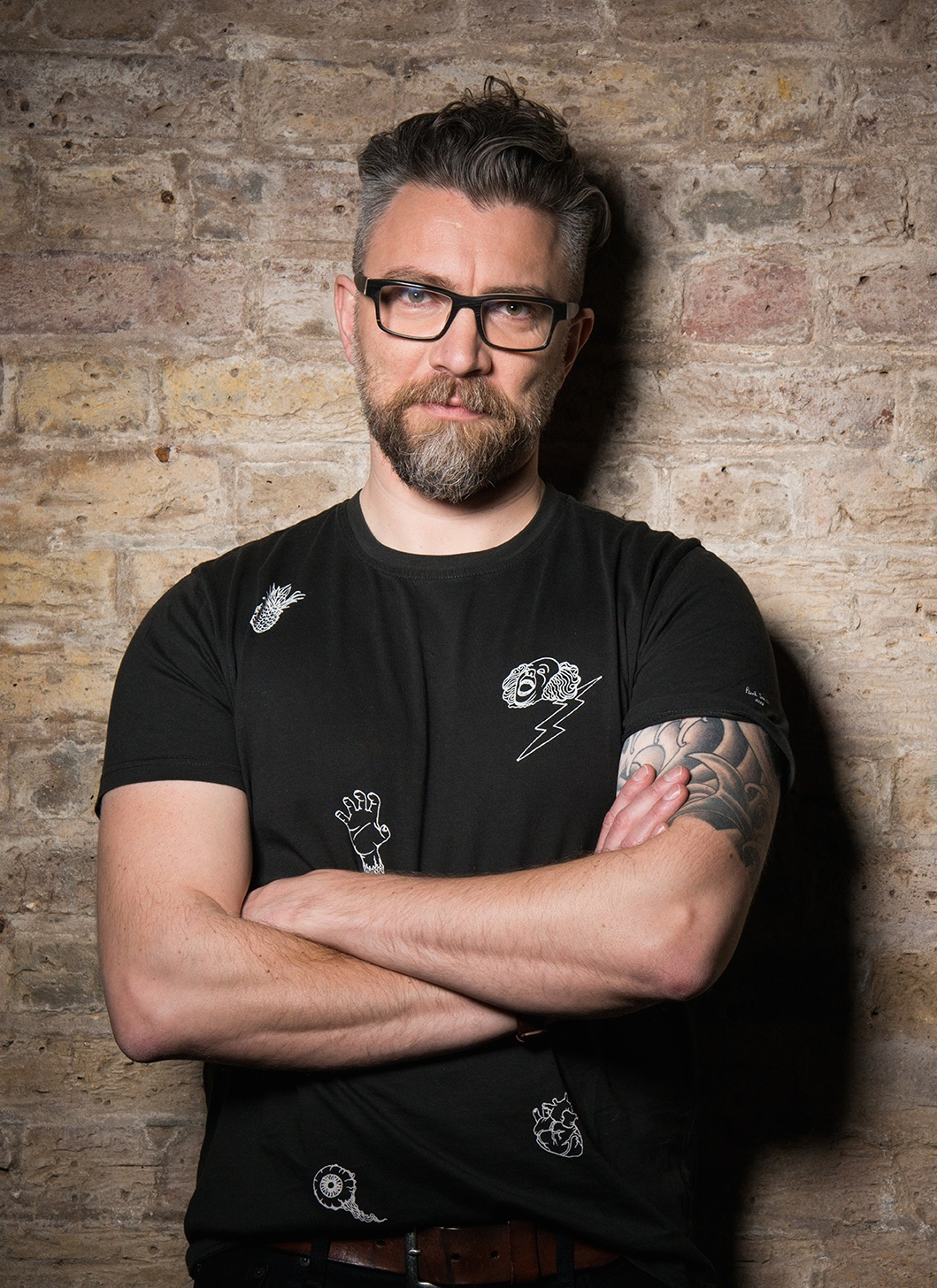 Headshot of Jamie East, british TV and Radio Presenter